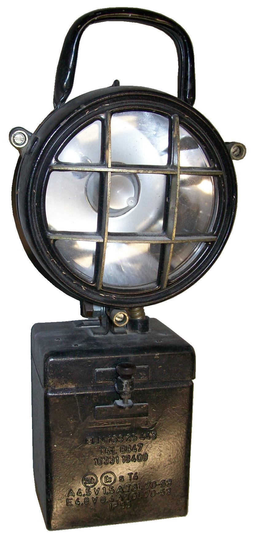 mine lamp with NiCd battery, incandescent lamps 4.5V/1.5A + 4.8V/0.5A, made by VEB Grubenlampenwerk Zwickau, former GDR / Germany